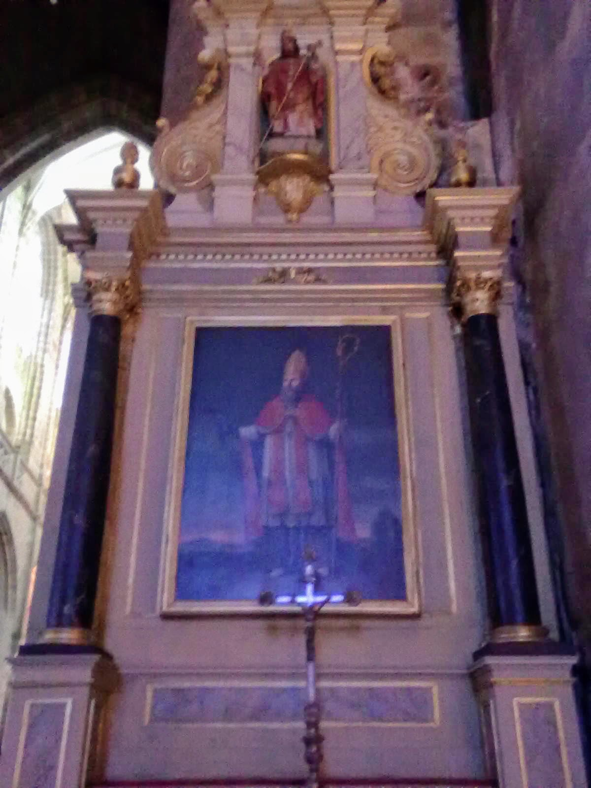 Upper part